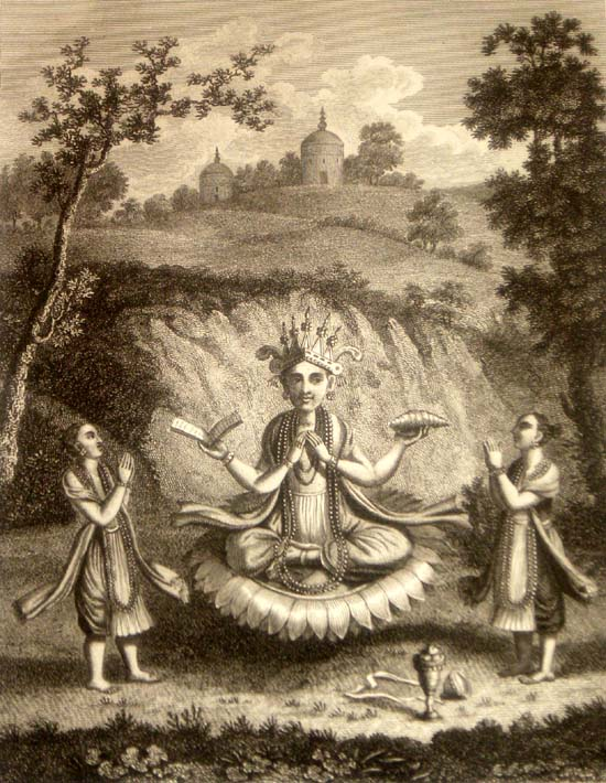 "The Bamun Avatar, representing the magnificent Bali Orbelus giving away the arrogated Empire of the World, to the disguised Vishnu," a copper engraving, 1790's, probably based on Valentijn 1726 Source: ebay, Dec. 2005 More copper engravings from the same series, apparently from an English translation of Valentijn's Dutch work "Zaaken van den Godsdienst," 1726: The Matsya avatar, or first incarnation of Veeshnu in the form of a fish to recover sacred books lost during the deluge* The Vara avatar or second incarnation of Veeshnu in the form of a boar to support upon his tusks the Earth, immersed in the waters of the deluge* The Courma avatar, or third incarnation of Veeshnu in the form of a tortoise to sustain the Earth convulsed by the assaults of demons during the deluge* The sixth avatar or Veeshnu incarnate in Parasa Rama, the exterminator of the Khettri tribe* The seventh avatar or Veeshnu incarnate in Ramachandra combating with the ten-headed Ravan, the gigantic tyrant of Ceylone* Buddha or the ninth avatar, incarnate for the purpose of abolishing sanguinary sacrifices* The Calci or 10th avatar, an evident allusion to the destroying angel and white horse of the Apocalypse* Creeshna trampling on the head of the crushed serpent*